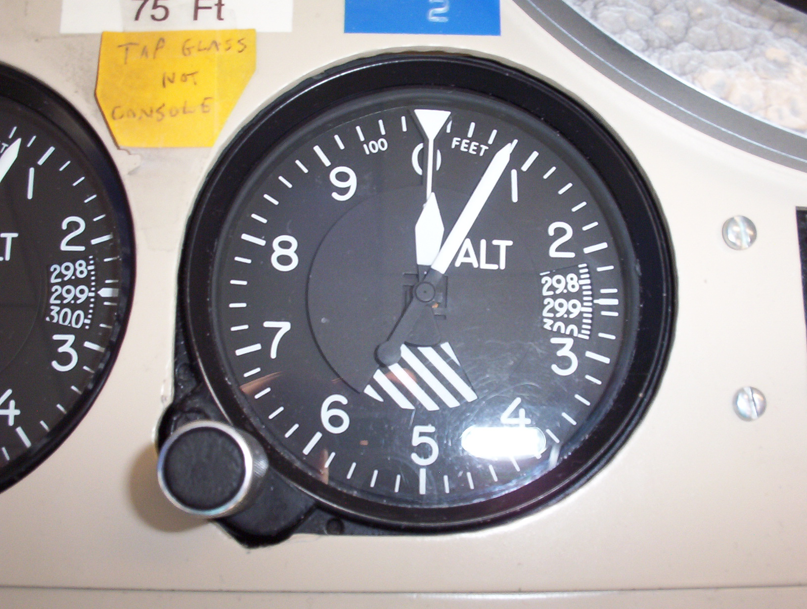 A Kollsman-type barometric aircraft altimeter set at 75 ft (23 m) showing a pressure of 29.87 in (1011.5 hPa). This altimeter is mounted in a console at a radio station at Cambridge Bay Airport, Nunavut, Canada.